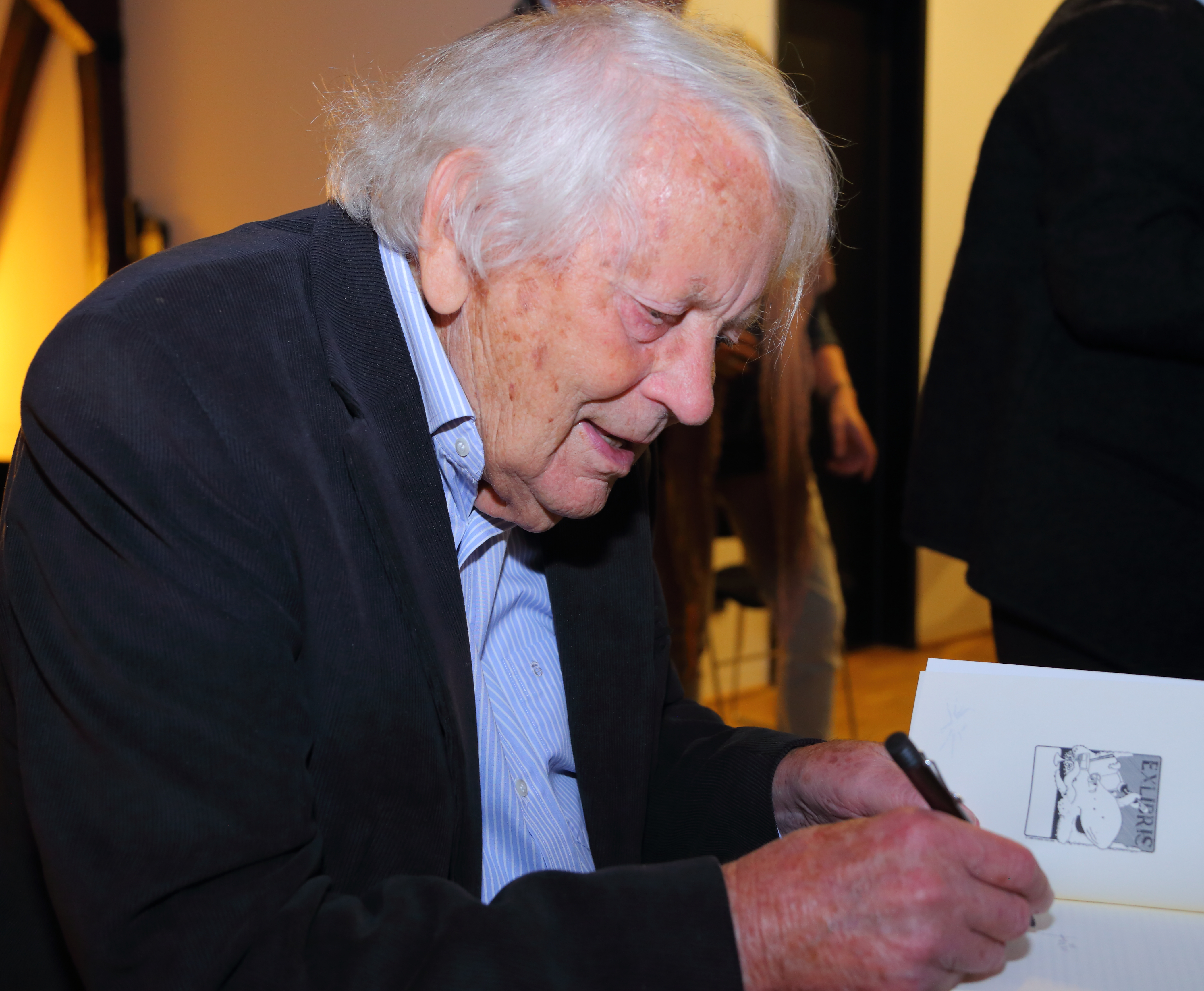 German writer Prof. Dr. Winfried Pielow signing one of his books at cloister Gravenhorst (DA, Kunsthaus Kloster Gravenhorst) in Hörstel-Gravenhorst, Kreis Steinfurt, North Rhine-Westphalia, Germany.